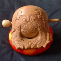 Mokugyo. Music instrument used with buddhistic recitation